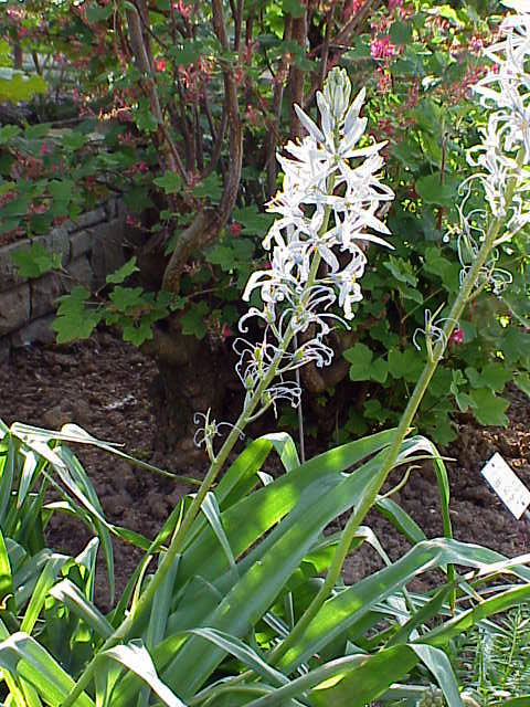 Species: Camassia cucickii W-North America Family: Liliaceae Image No. 1